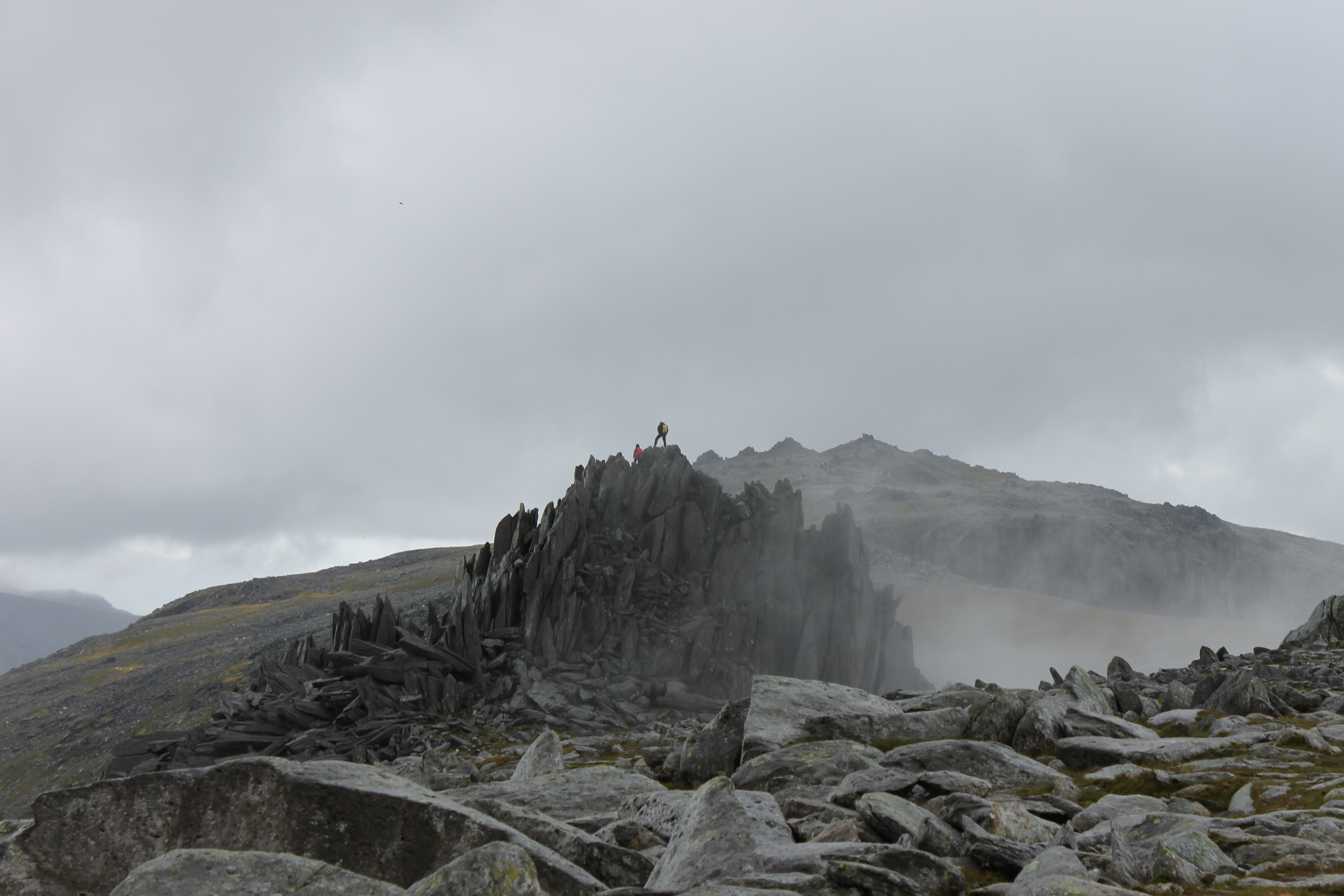 Stone formation (Castell y Gwynt) on Glyder Fach, one of the Glyderau; 994m.